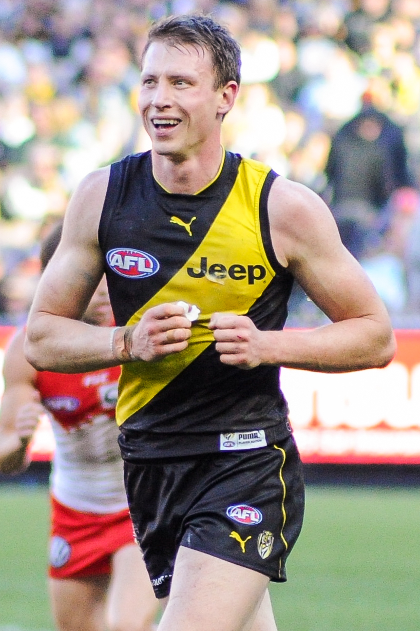 Dylan Grimes during the AFL round thirteen match between Richmond and Sydney on 17 June 2017 at the Melbourne Cricket Ground in Melbourne, Victoria.